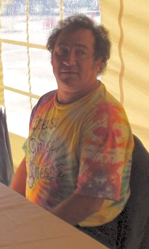 American actor Eddie Mekka at Chiller Theatre convention. He played Carmine "The Big Ragoo" Ragusa on the television program Laverne and Shirley. You could get him to autograph a bottle of Ragu sauce he brought for $20.00!